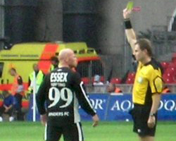 Stig Tøfting taking a yellow card shown by the referee Henrik Nystrup Kragh during the match between FC København and Randers FC (1-0).